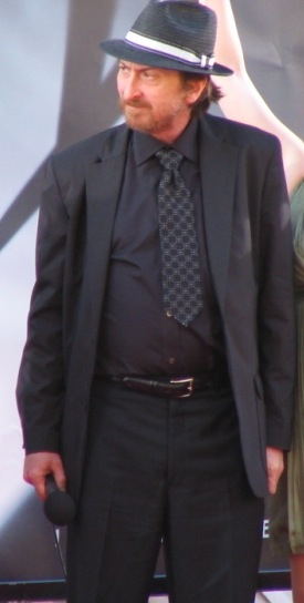 Frank Miller at the "X-Files: I Want To Believe" premiere depicted person: Frank Miller (age: 51.49)